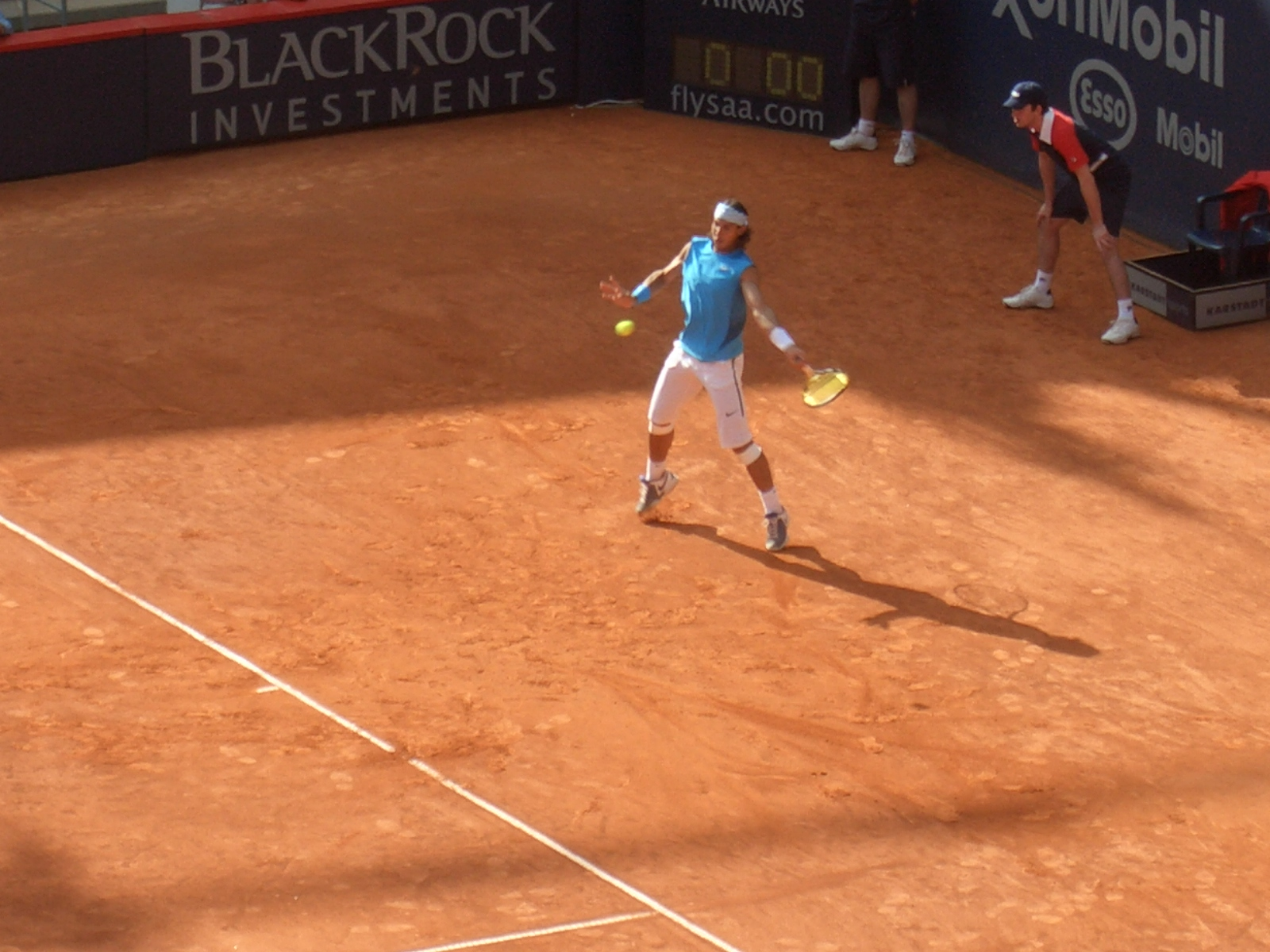 Rafael Nadal at the Hamburg Masters 2008